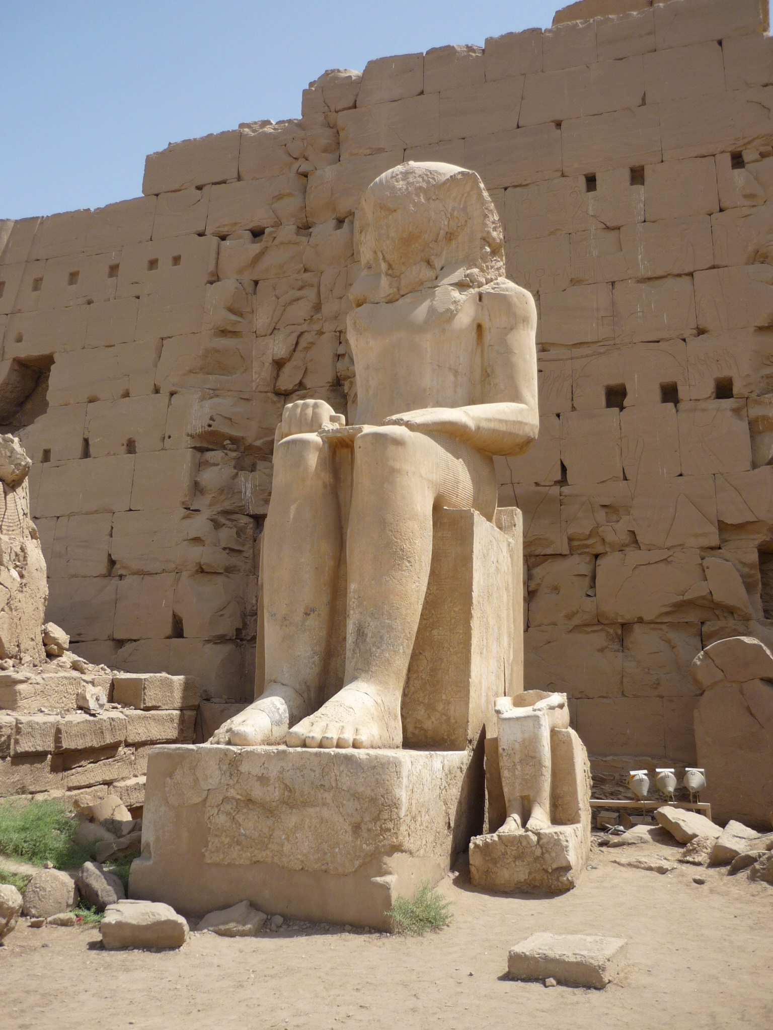 Statue of Hatshepsut ou de Tuthmosis III near the eighth pylon, Karnak temple of Amun-Ra, Egypt